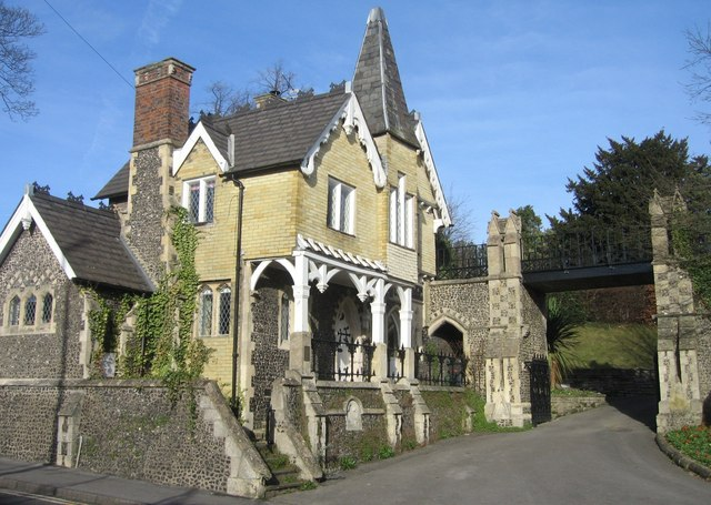 Birth place of John Arlott O.B.E. The cricket commentator, broadcaster, poet and writer was born here 25 February 1914. The building dates from 1856. This is also the entrance to South View cemetery.